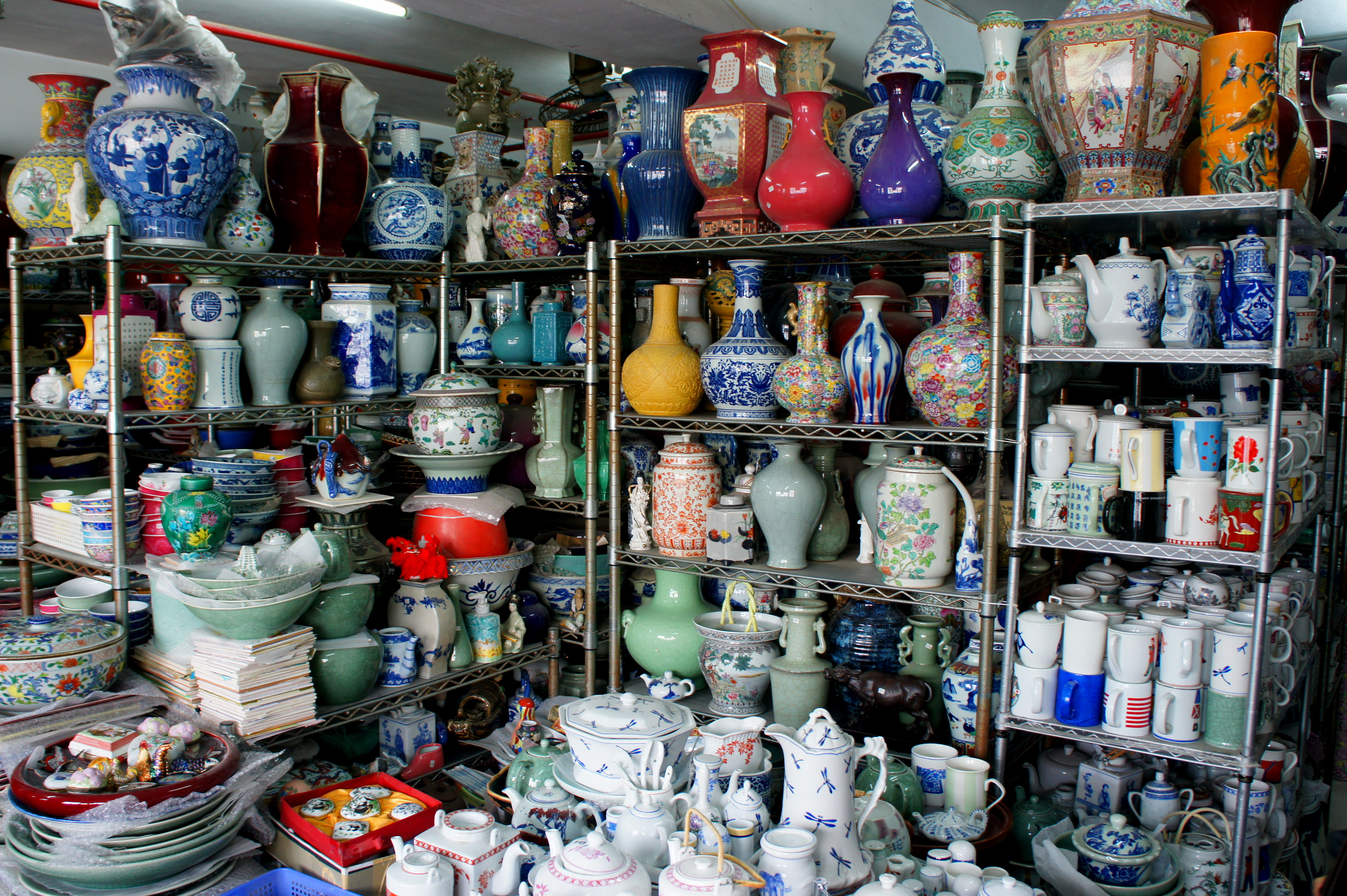 Yuet Tung China Works, Kowloon, Hong Kong.